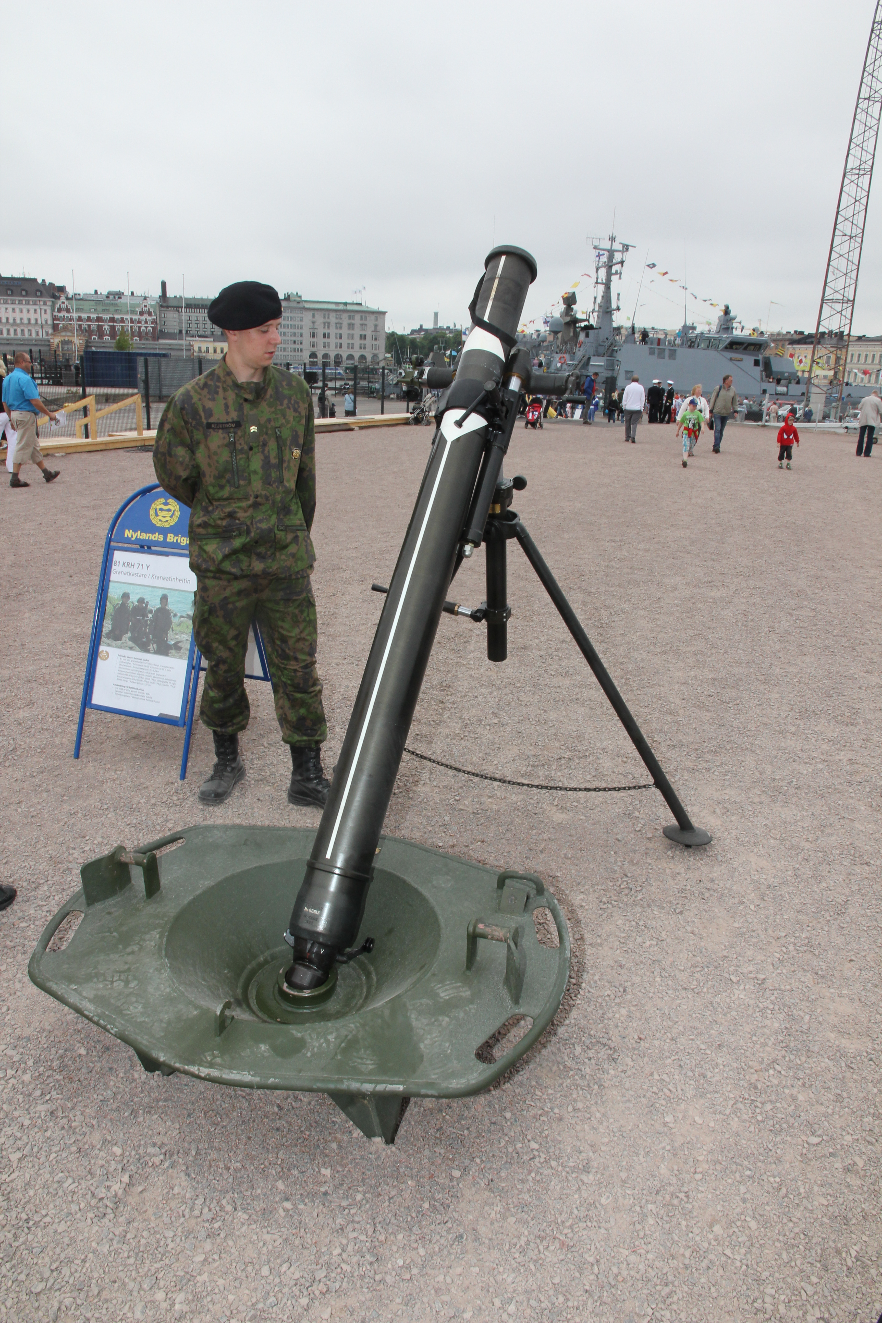 120 Krh 92 heavy mortar on display during the Finnish Navy 2012 anniversary.